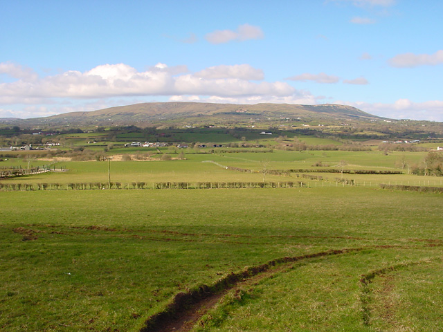 View of Slieve Gallion Taken from the A31 between Moneymore and Magherafelt looking north-east towards Slieve Gallion.